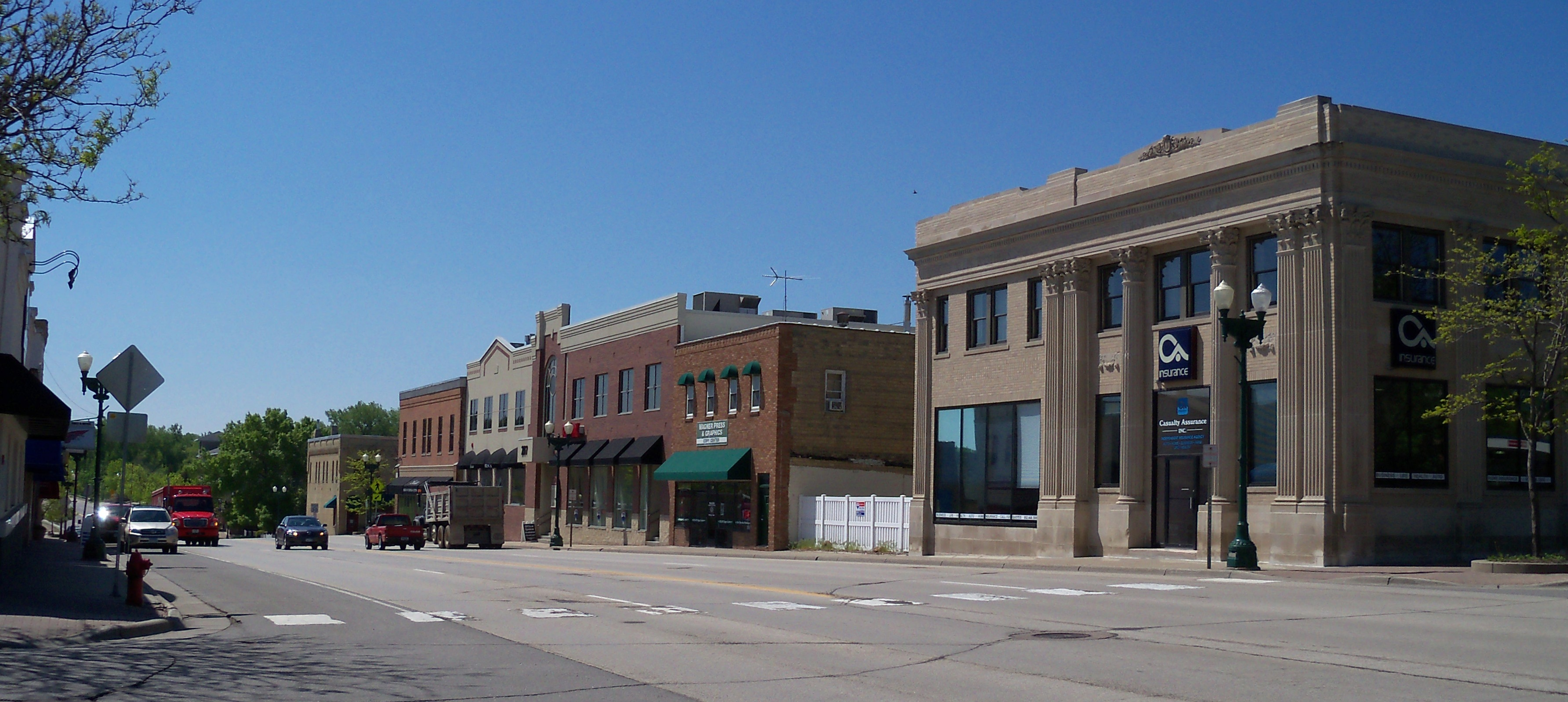 Street in downtown Chaska, Minnesota, USA.